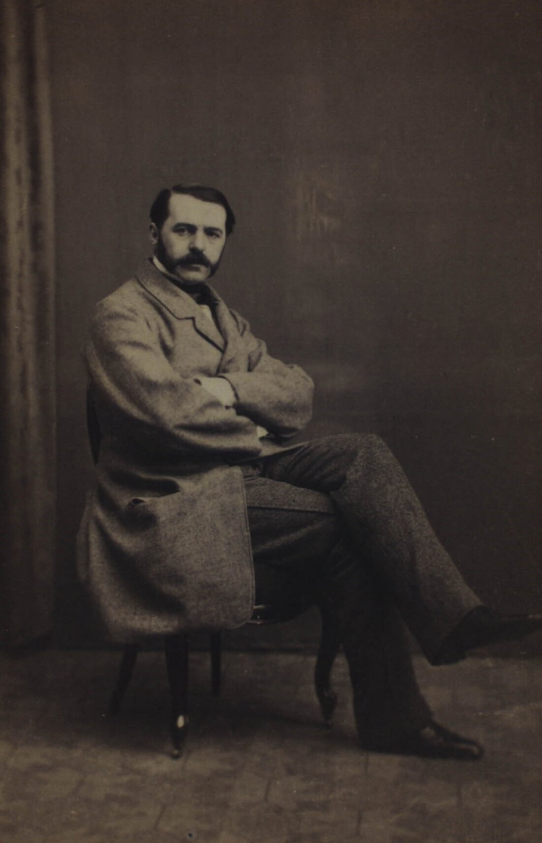 Carl Frederik Axel Bror von Blixen-Finecke (1822-1873), Danish baron and politician, Foreign Minister and Minister for Schleswig